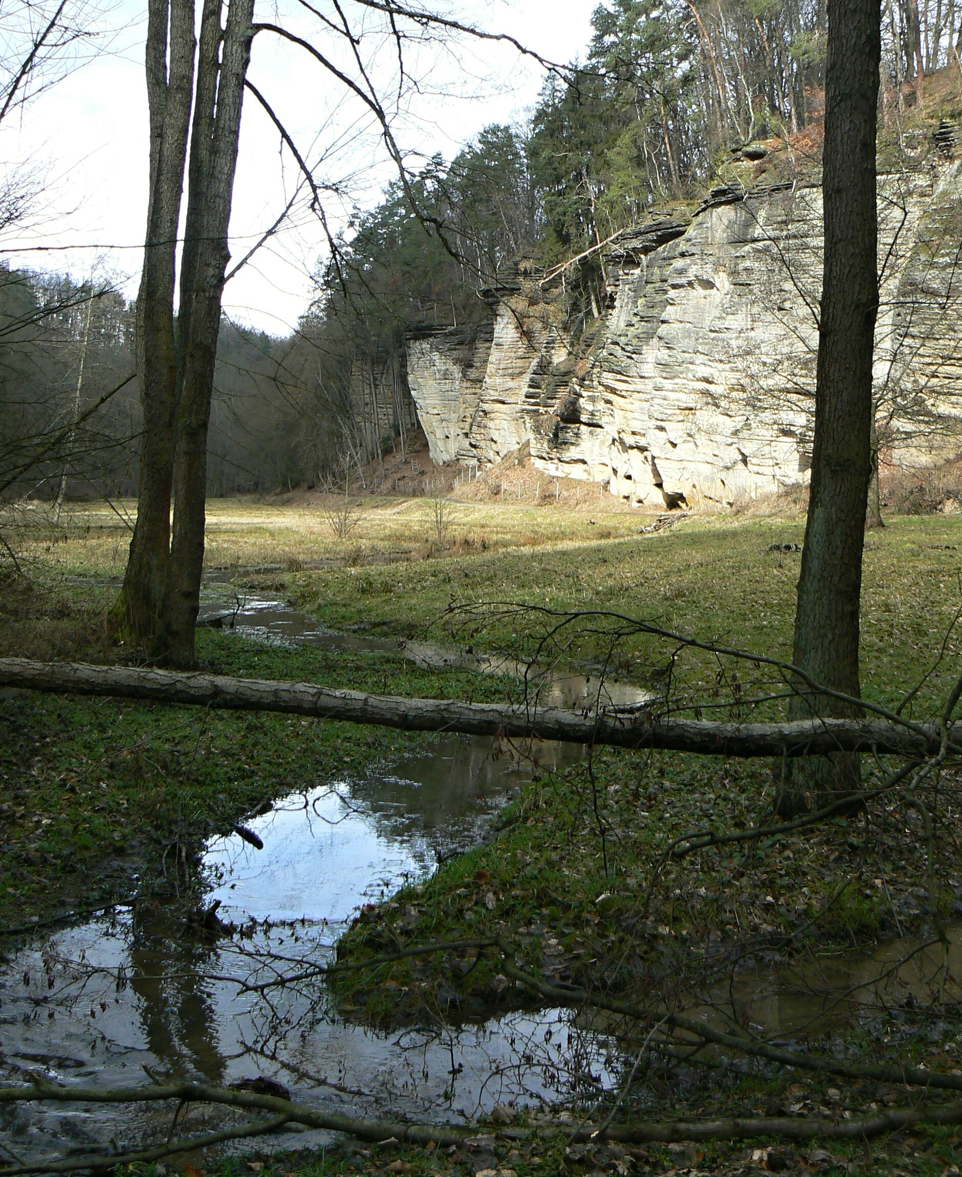 Little river Klenice in the Plakánek Valley